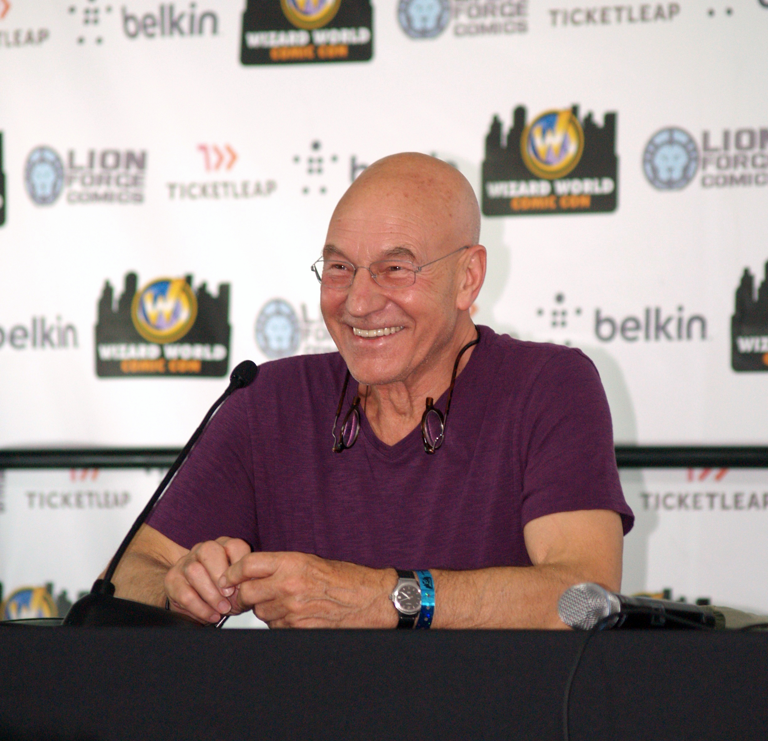 Actor Patrick Stewart during a June 29, 2013 Q&A panel at the 2013 Wizard World New York Experience. This photo was created by Luigi Novi. It is not in the public domain, and use of this file outside of the licensing terms is a copyright violation.